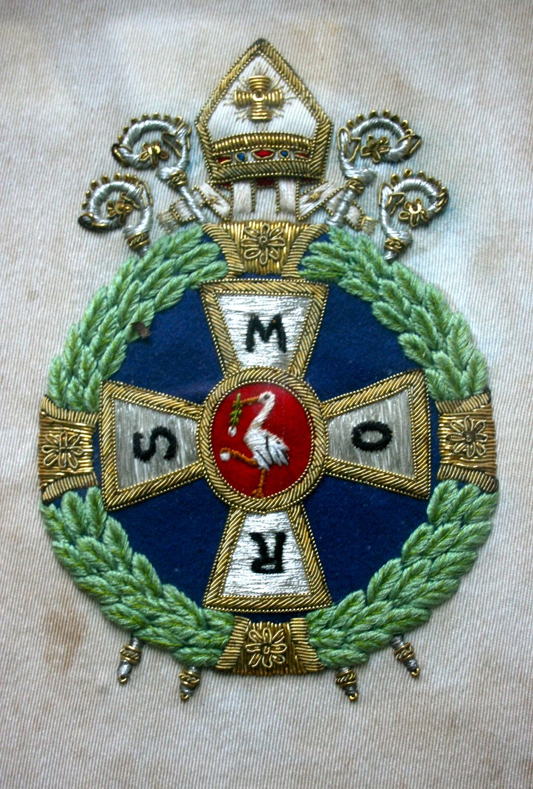 The seal of Zirc Abbey, with strong reference to Morimond Abbey in France.